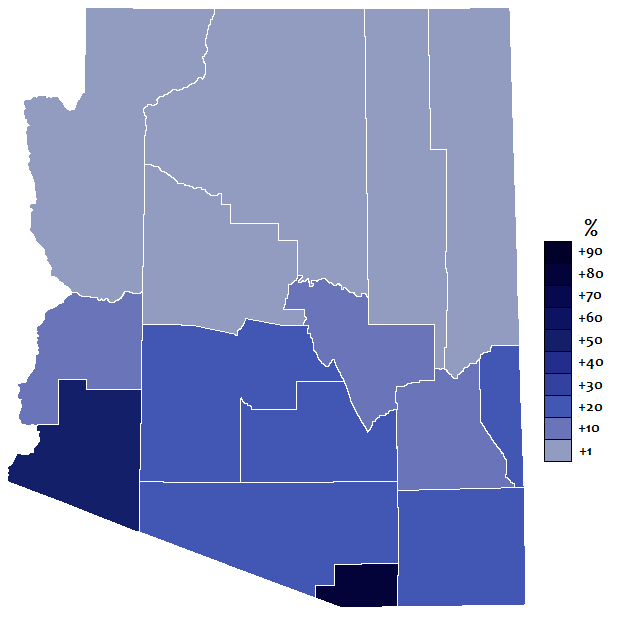 Extent of Spanish in Arizona. Source: Language Spoken at Home for the Population 5 Years and Over by County in State of Arizona, 2000. U.S. Census Bureau.